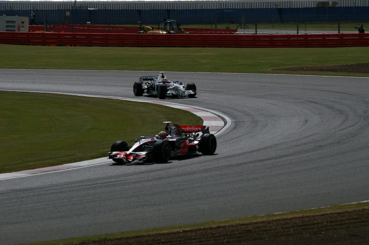 Heikki Kovalainen and Robert Kubica at the 2008 British Grand Prix